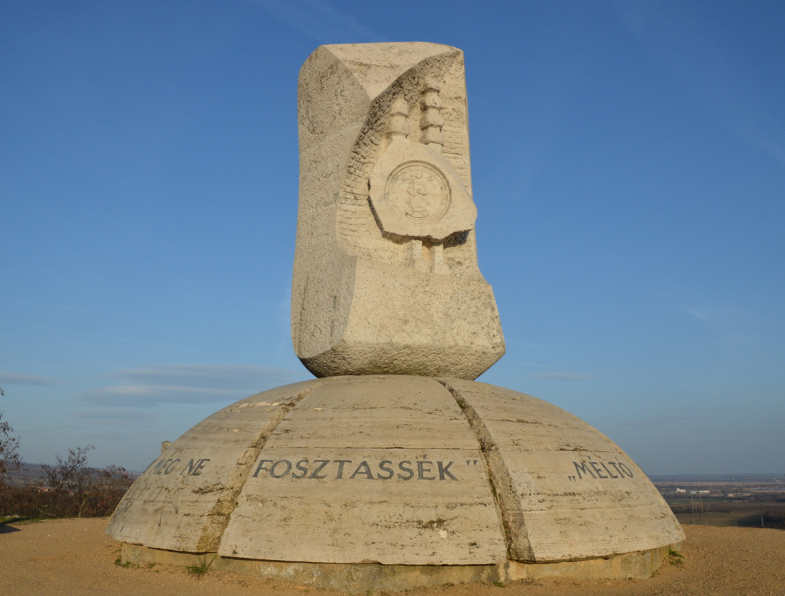 Golden Bull (Aranybulla) memorial in Székesfehérvár, Hungary